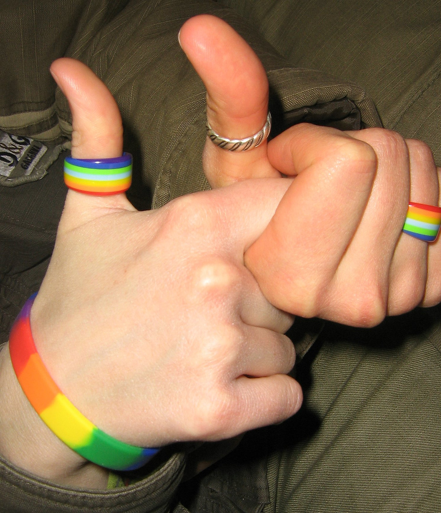 Same Sex Marriage